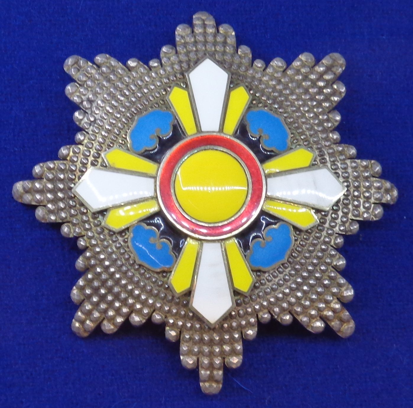 Order of the Auspicious Clouds, star of Grand Cordon. Empire of Manchukuo. The exhibition of the Tallinn Museum of Orders of Knighthood, Estonia.